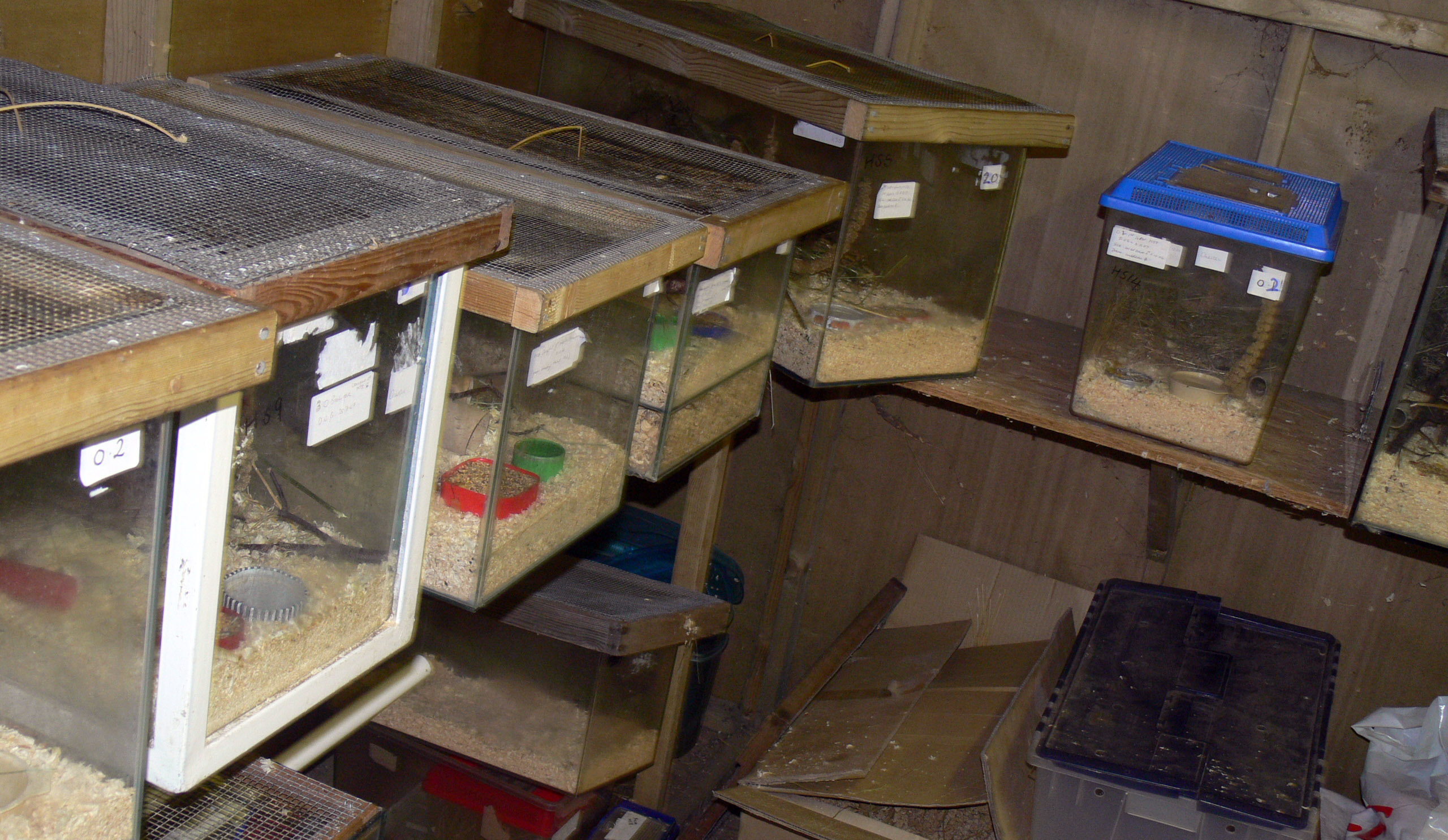 Wildwood Discovery Park recently calledWildwood Trust,in Kent (United Kingdom)